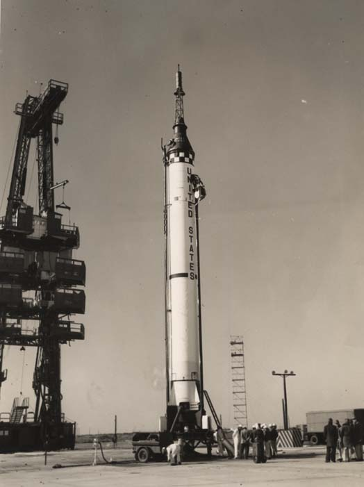 Rocket at Marshall Space Flight Center in Huntsville, Alabama.